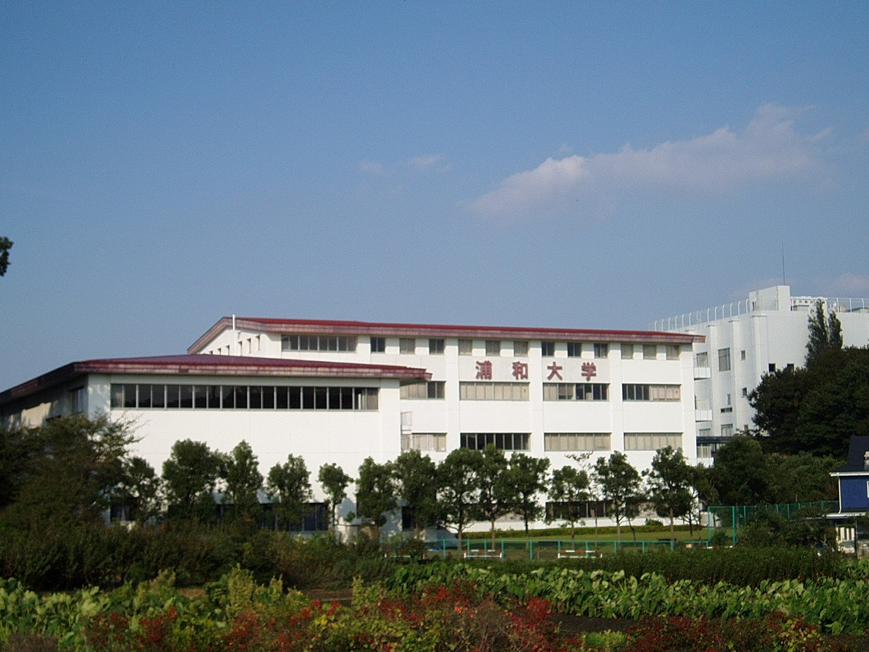 Bldg. #3 of Urawa University, located in Midori-ku, Saitama, Saitama Pref., Japan.